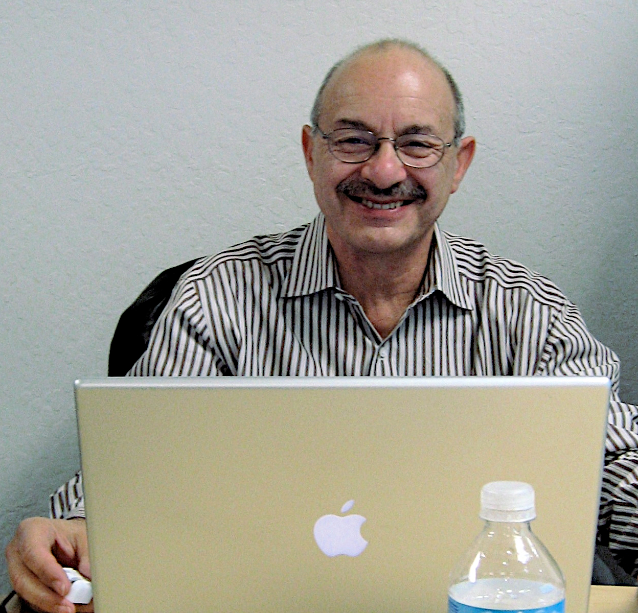 Leslie L. Vadász When I sat down across from Les Vadasz yesterday, I noticed something different. As an Intel co-founder (badge #3), he was the design manager for the world's first DRAM, EPROM and microprocessor. I had to ask, with a bit of a snicker: “So, did you finally get to buy the computer you’ve always dreamed of having, now that there’s Intel inside?” Les: “You’re god damn right!”